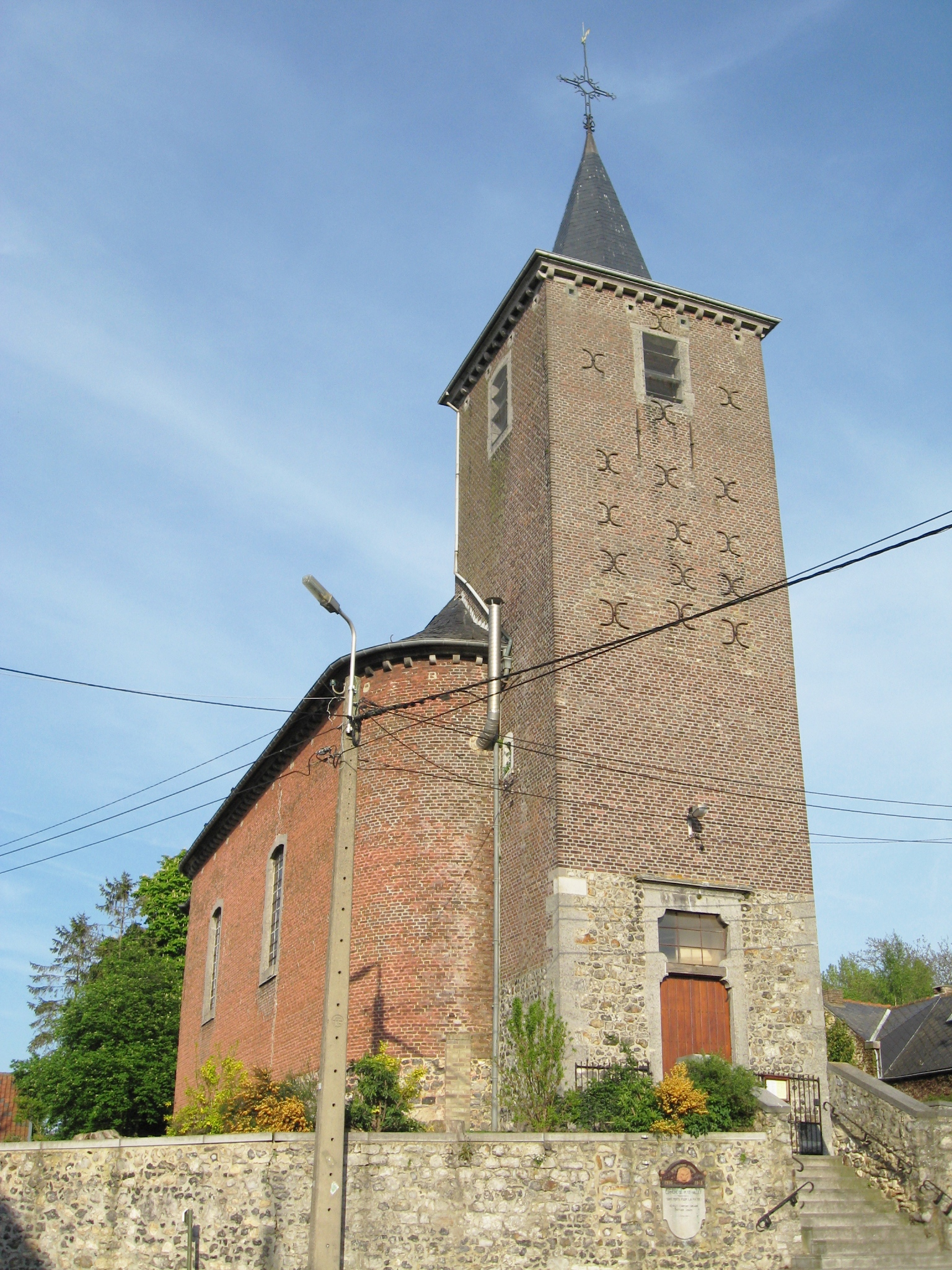 Church of Saint Lambert in Petit-Hallet, Hannut, Liège, Belgium